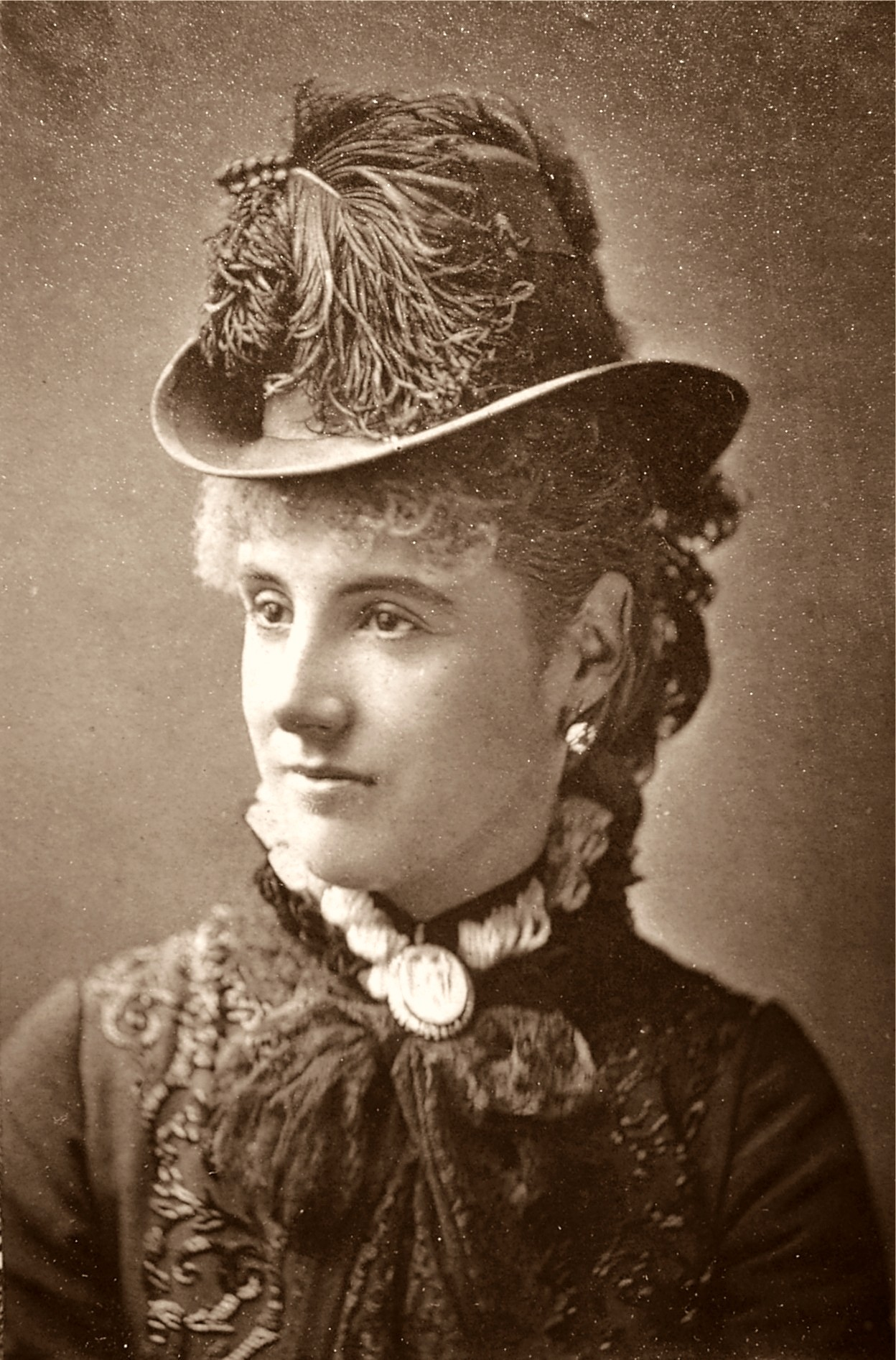 Lilian Adelaide Neilson 1848-1880, English Actress.